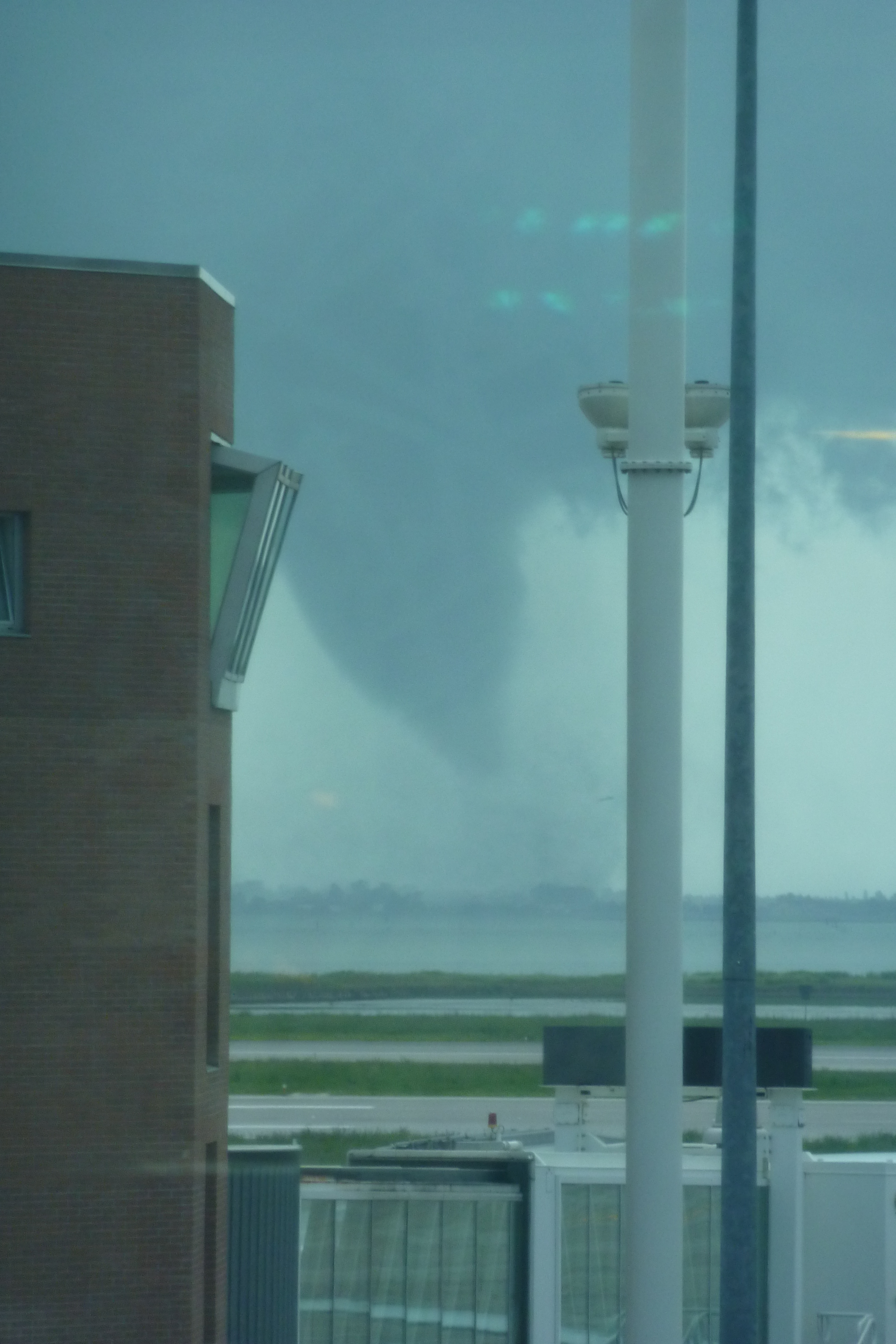 June 12th, 2012, tornado passing over Venice, Italy, viewed from an airport window. In this image the tornado is touching the ground but the funnel cloud is lifting.